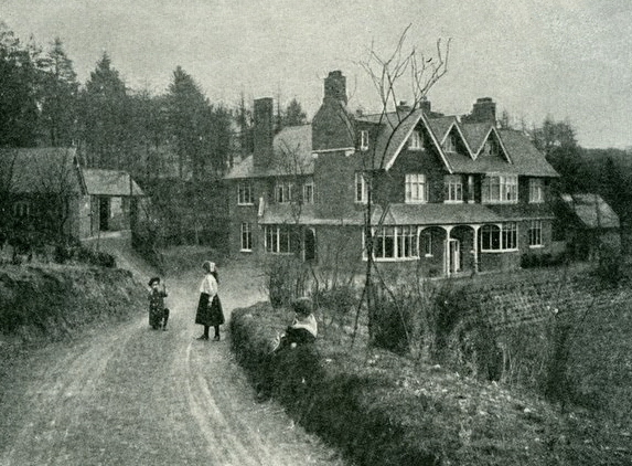 This photograph shows several of Arthur Conan Doyle's children playing on the driveway that leads to his home at that time, Undershaw.